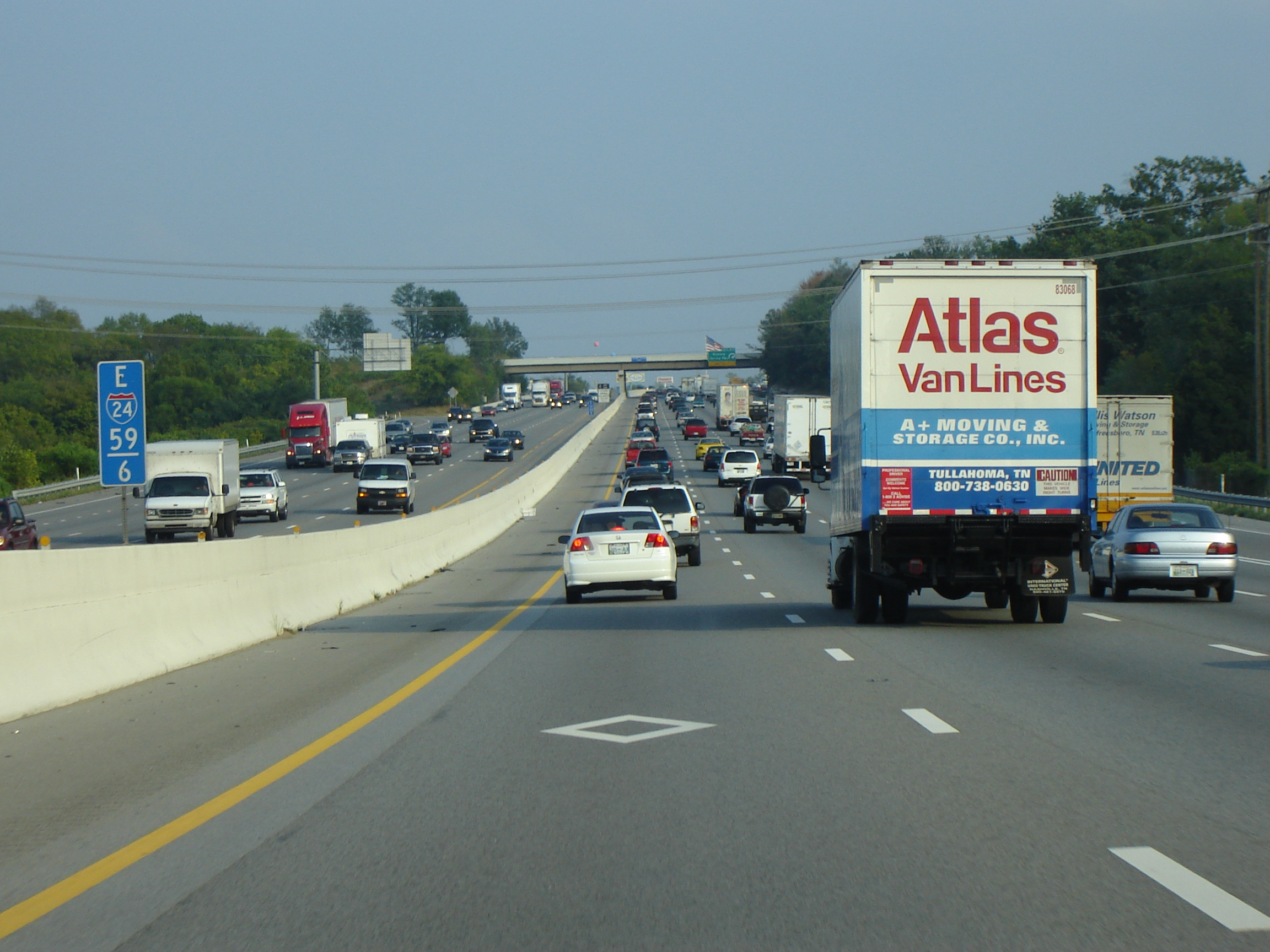 I-24 outside Nashville, TN.